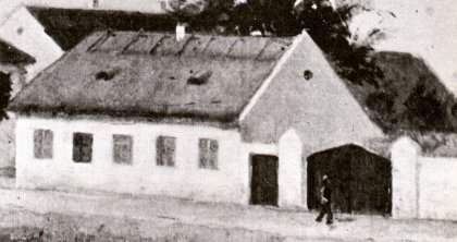 The first building of the school in 1870